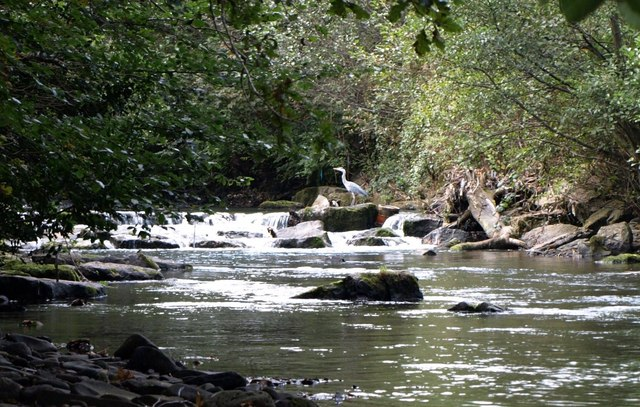 Fishing - Wattsville Caerphilly Poised ready to dive. In his local hunting bed's of the Sirhowy River, running through the Sirhowy Country Park, near to the village of Wattsville.